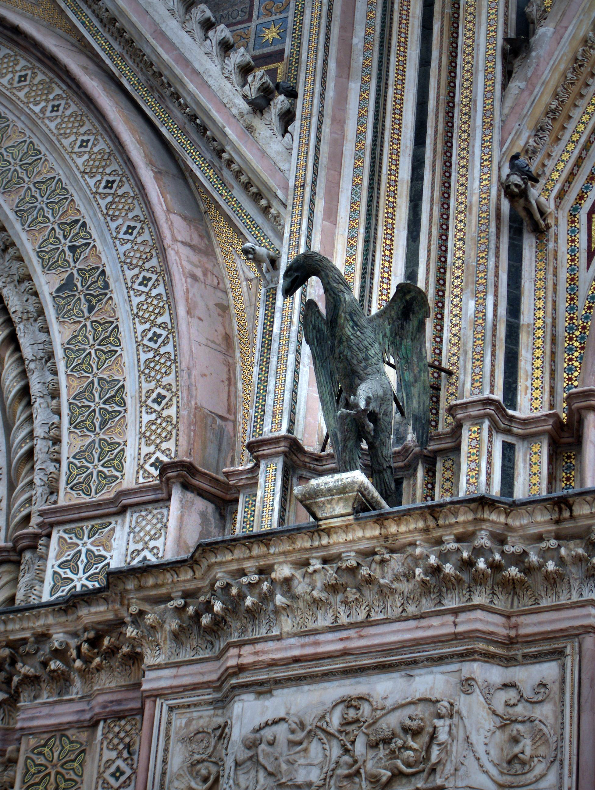 Bronze statue on the right middle pier, eagle, symbol of the evangelist John (14th century); cathedral of Orvieto, Italy